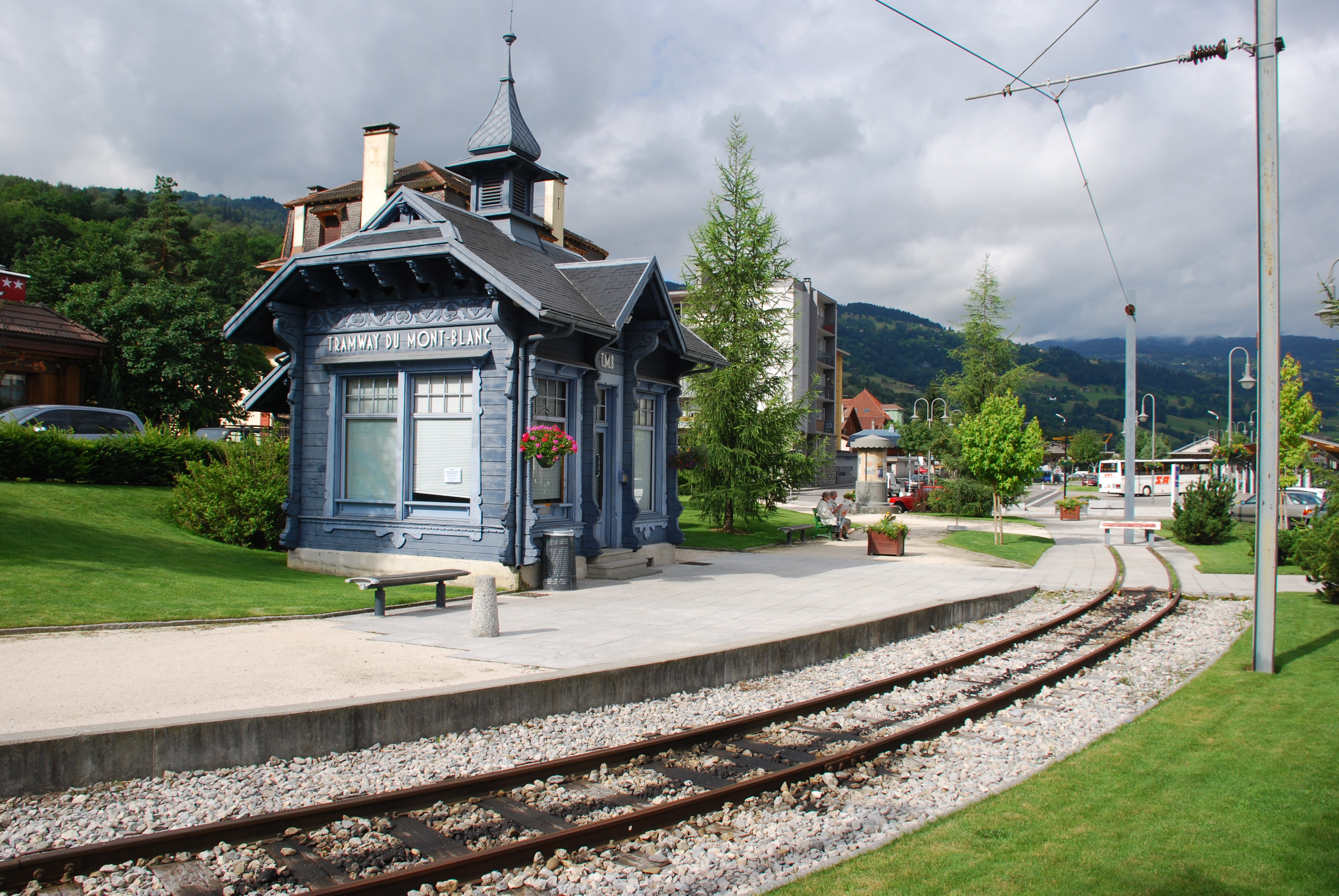 Tramway du Mont-Blanc station in Le Fayet.